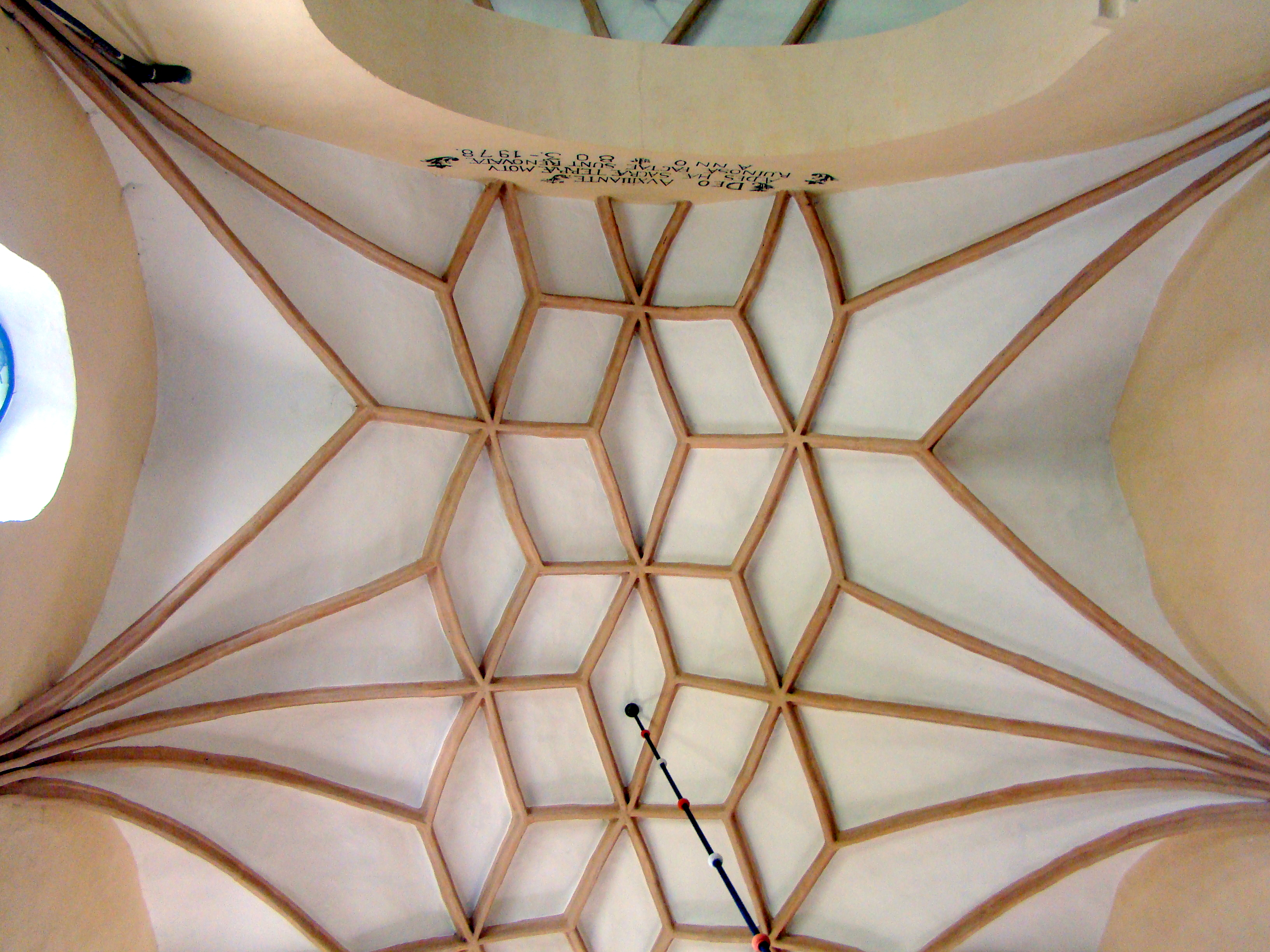 Lutheran church in Cloașterf, Mureș county, Romania